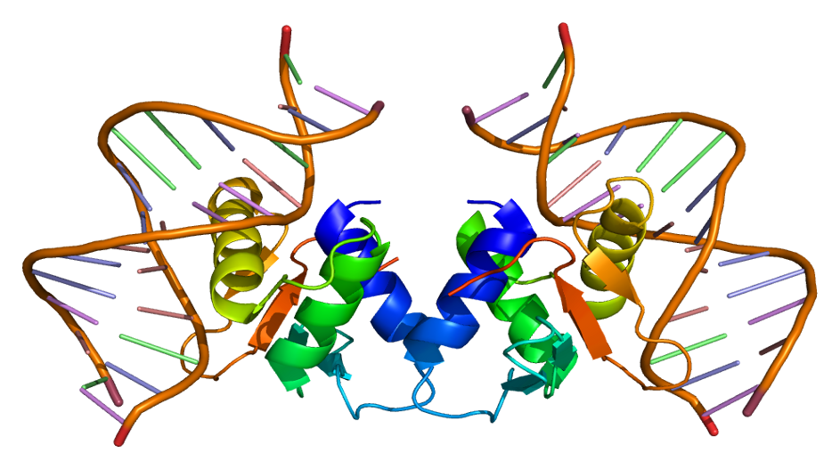 Structure of the ELK1 protein. Based on PyMOL rendering of PDB 1dux.